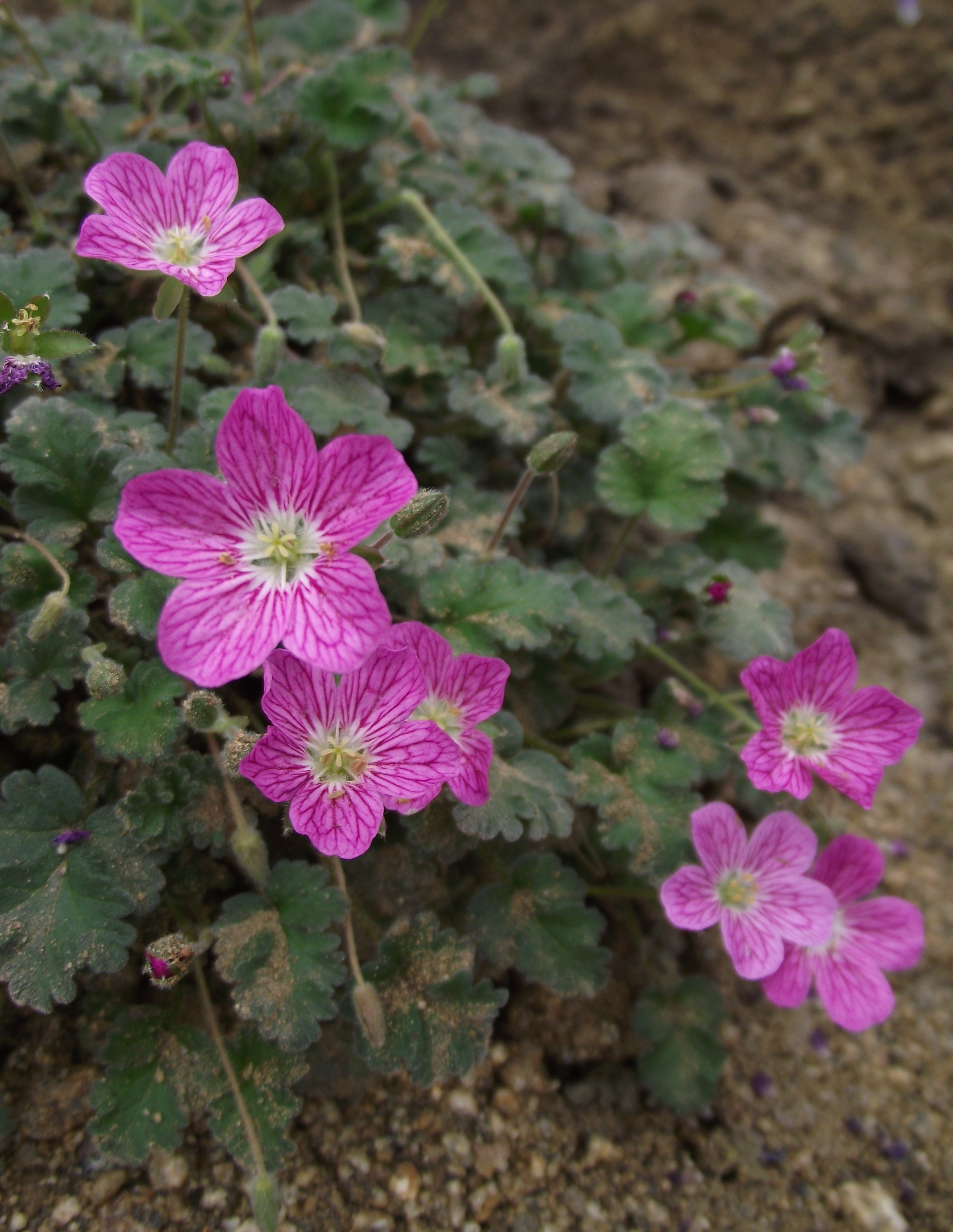 Erodium chamaedryoides on display at the San Diego County Fair, California, USA.